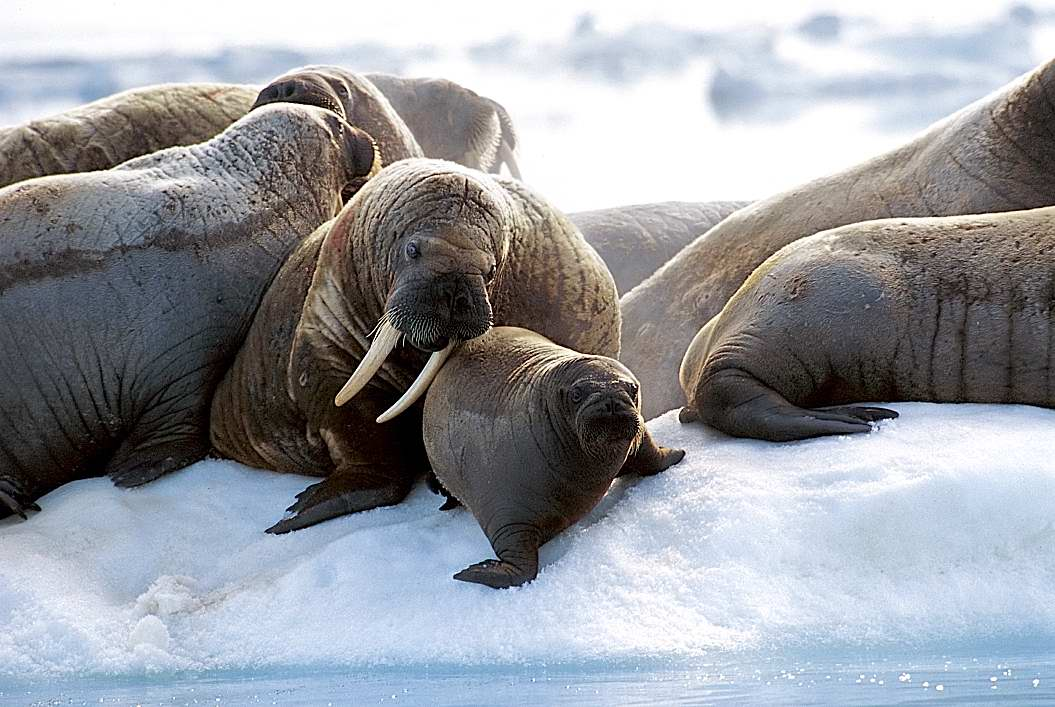 Atlantic walrus herd (Odobenus rosmarus rosmarus), mother and cub, on ice flow in Foxe Basin (Nunavut, Canada) I